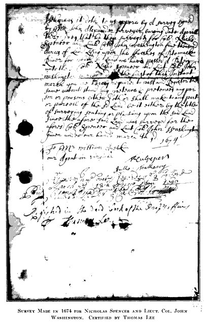 Survey made in 1674 for Col. Nicholas Spencer and Lieut. Col. John Washington. Certified by Thomas Lee. The survey involves the Spencer-Washington purchase of the tract of land that later became Mount Vernon, home of George Washington.